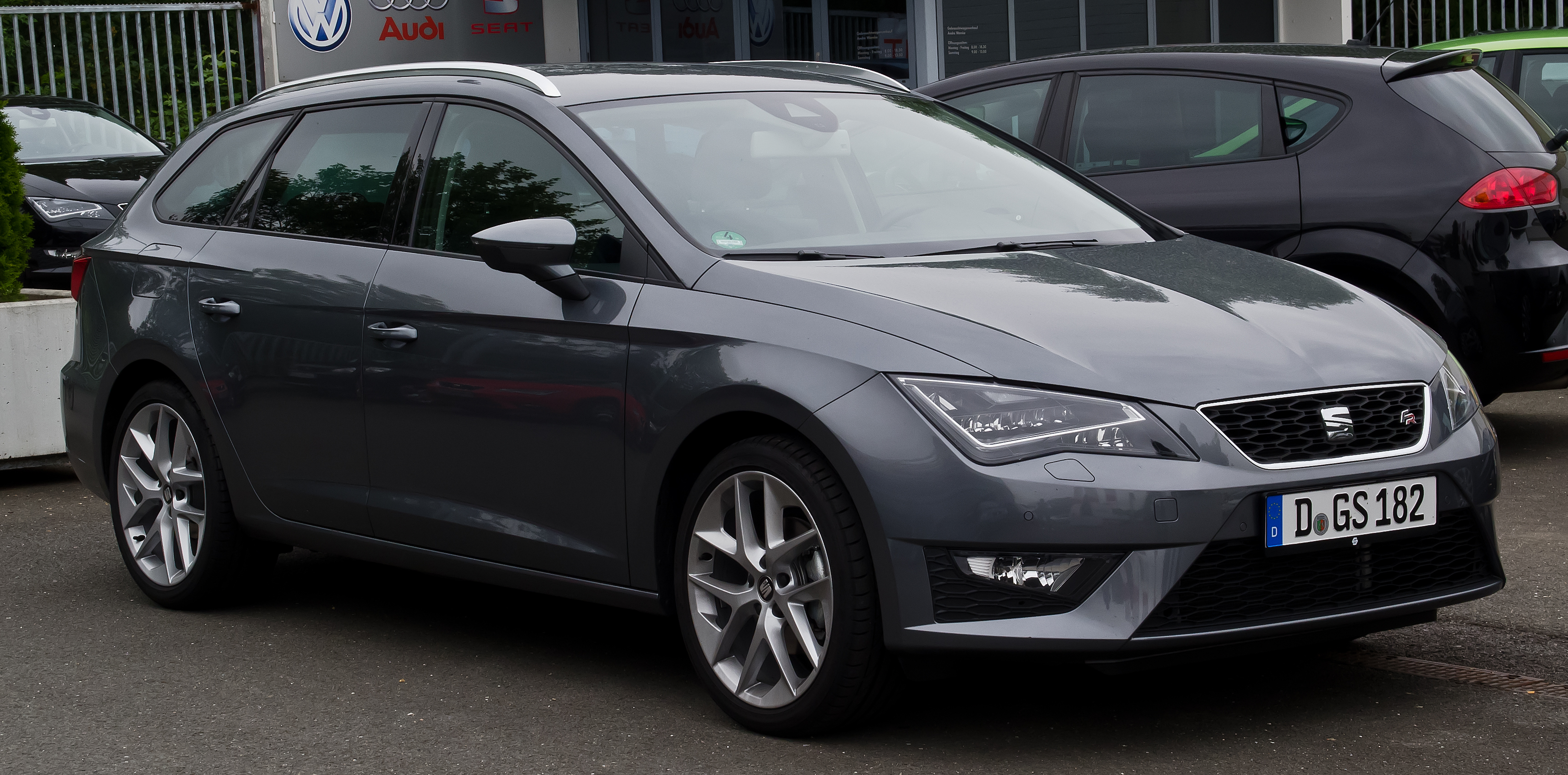 Seat Leon ST 1.4 TSI FR (III)